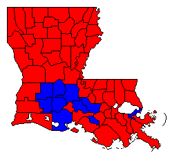 Self-created image showing county-by-county results of the 2004 US Senate election in Louisiana